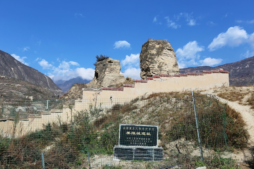 Jiangweicheng site